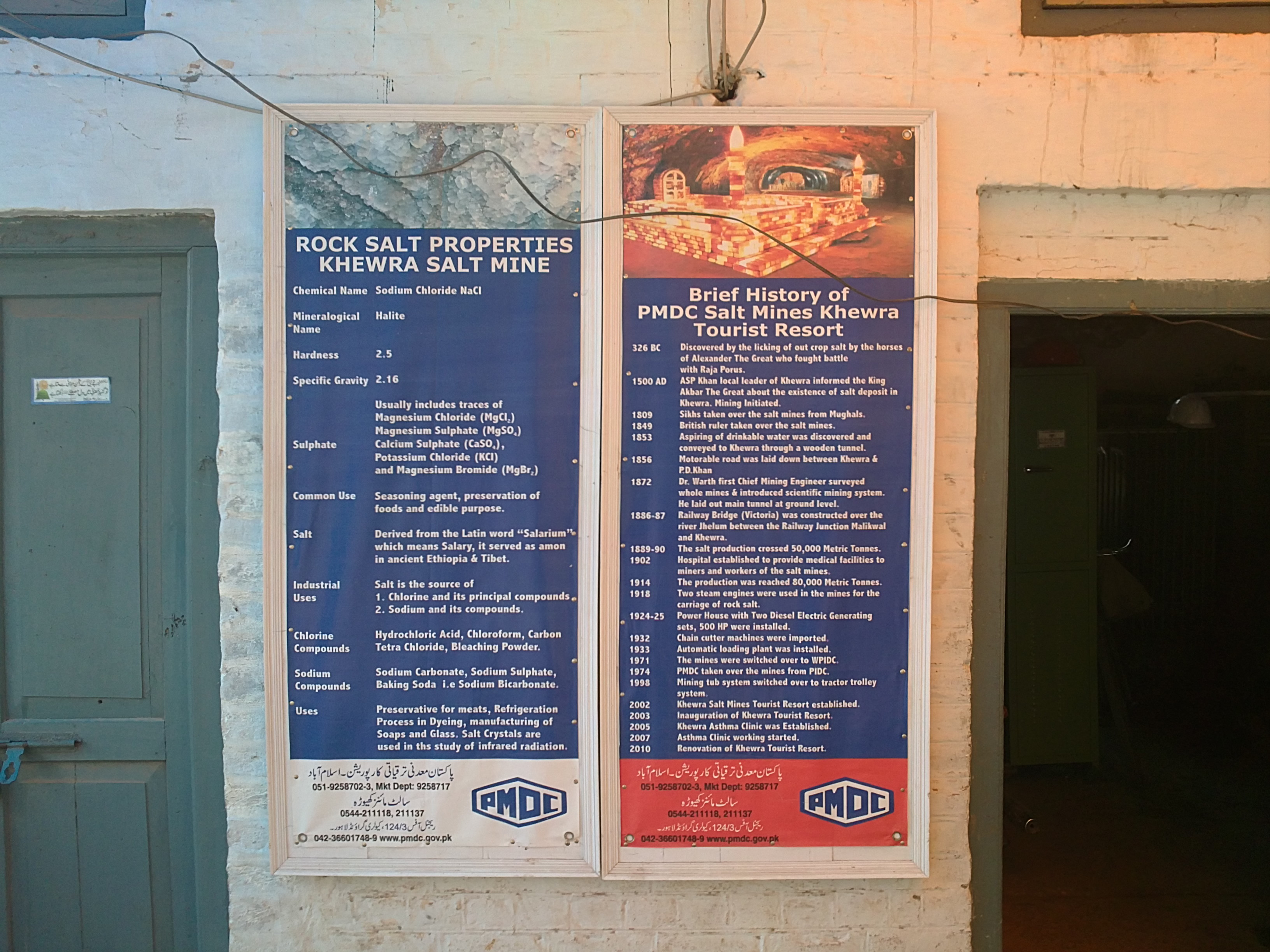 Pics From My Visit To Hari Pur, Khewra And Kallar Kahar